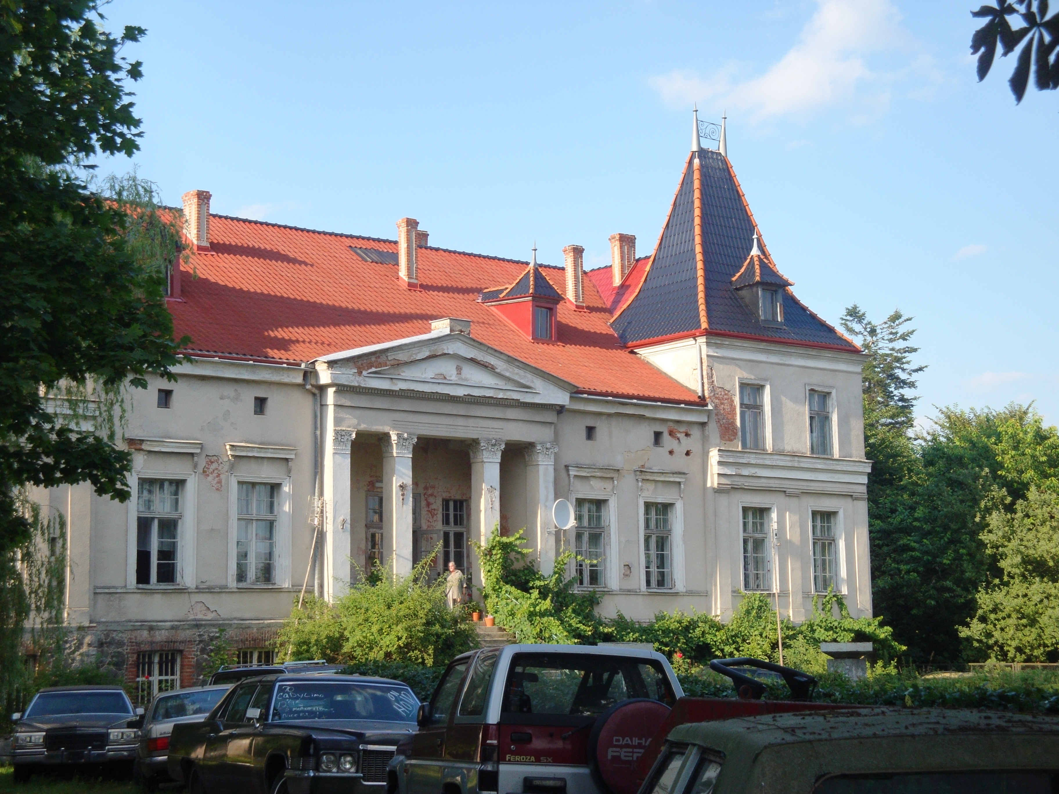 Wykosowo-village in Pomeranian Voivodeship, Poland